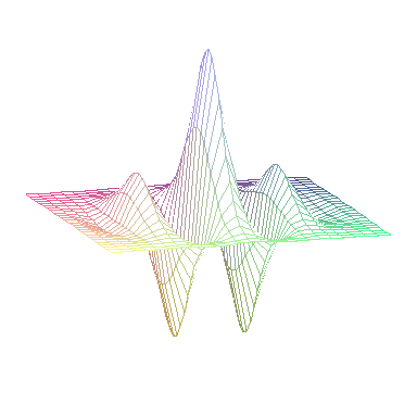 Gabor Filter 3D